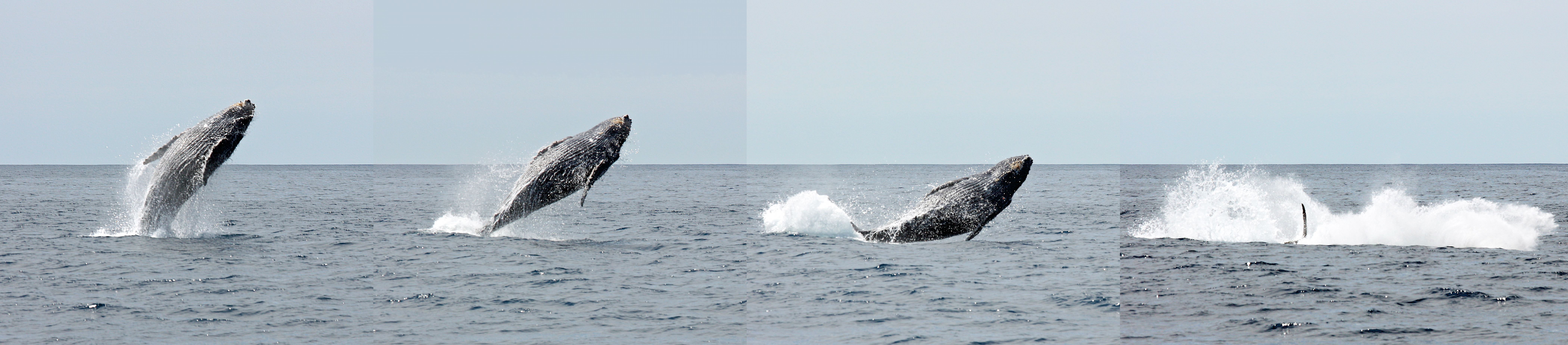 A juvenile humpback whale (Megaptera novaeangliae) breaches in the Gulf of the Farallones west of San Francisco, California. The whale pivots somewhat while falling back, using its tail, and lands on its left side, with its right pectoral fin outstretched.